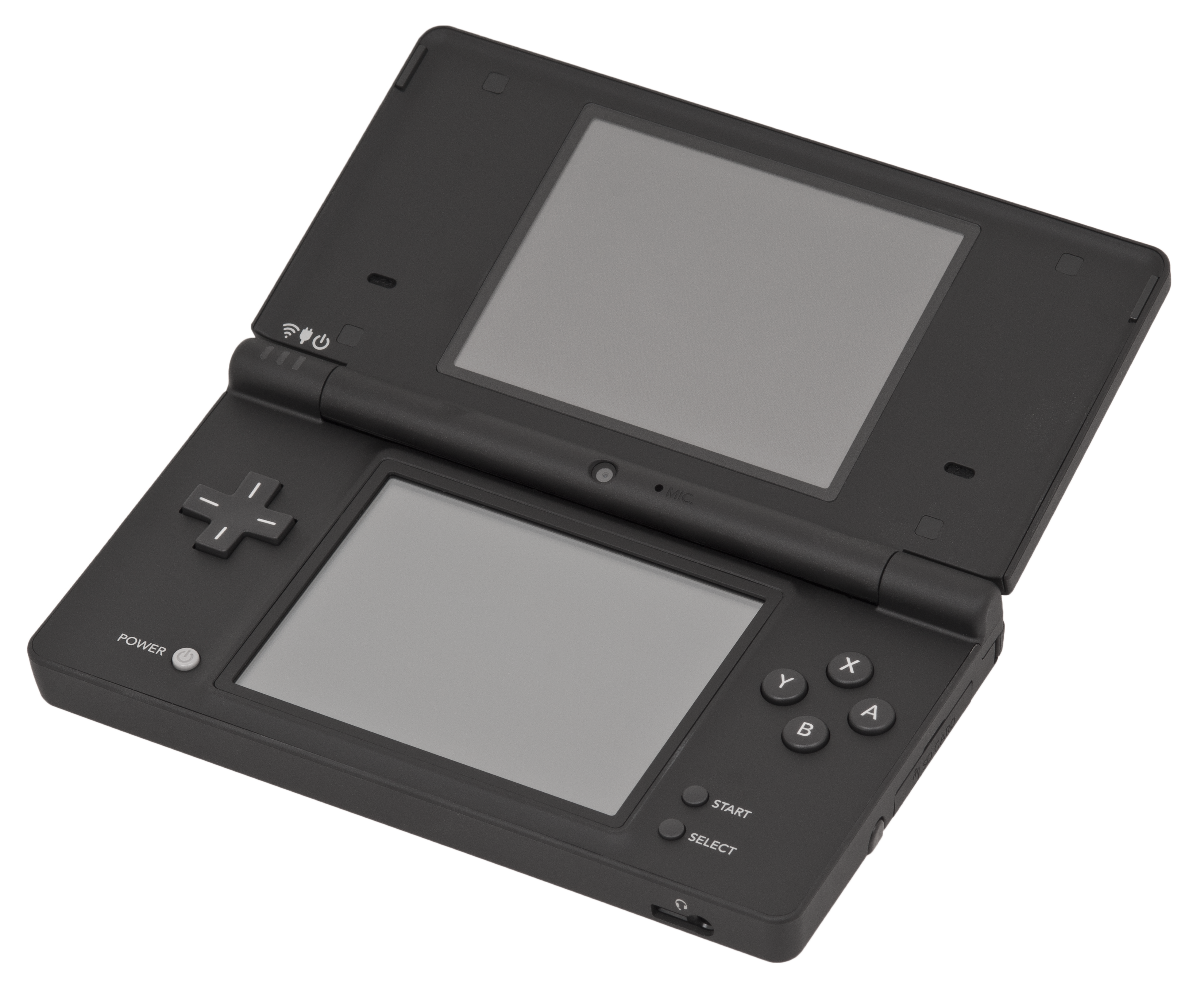 The Nintendo DSi. This is a redesign of the Nintendo DS that adds larger screens, cameras, and the addition of downloadable games through the DSi shop.